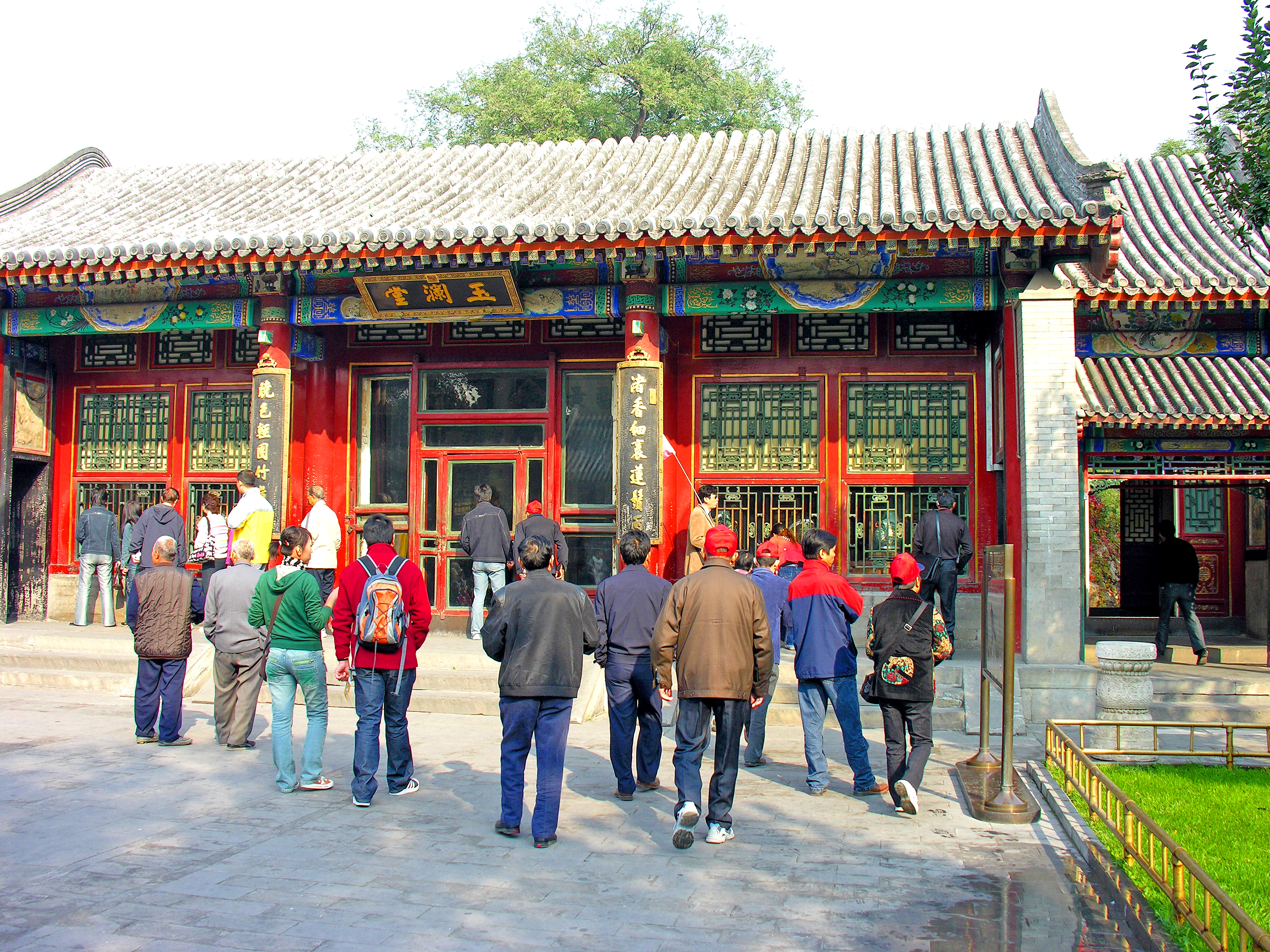 Hall of Jade Ripples , Qing Emperor Guangxu was once under house arrest here.